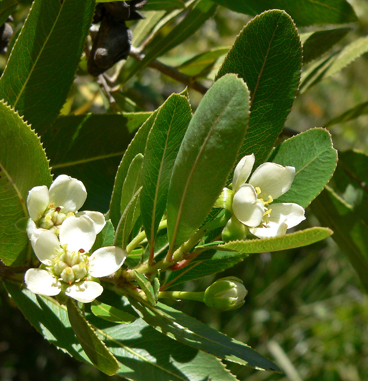 Kageneckia oblonga at the University of California Botanical Garden, Berkeley, California